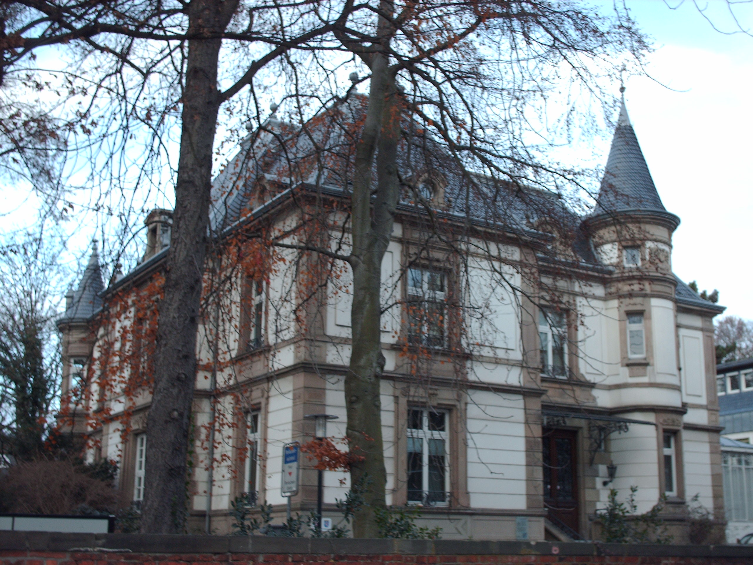 Villa Leutert, Gießen, Germany check usage